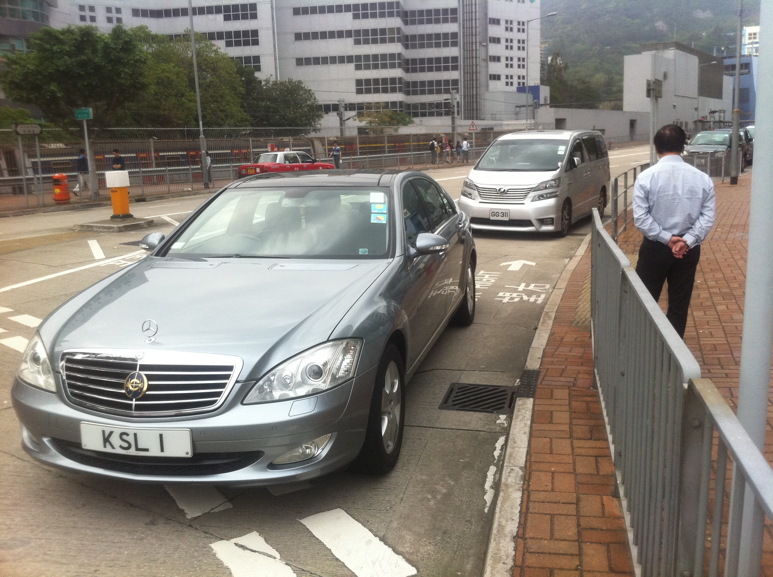 Kln Tong 多福道 To Fuk Road Mercedes-Benz carpark in 2012